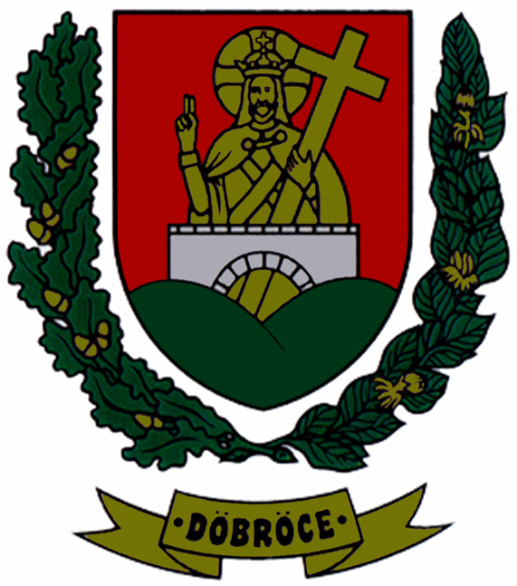 Coat of arms of Döbröce, Hungary